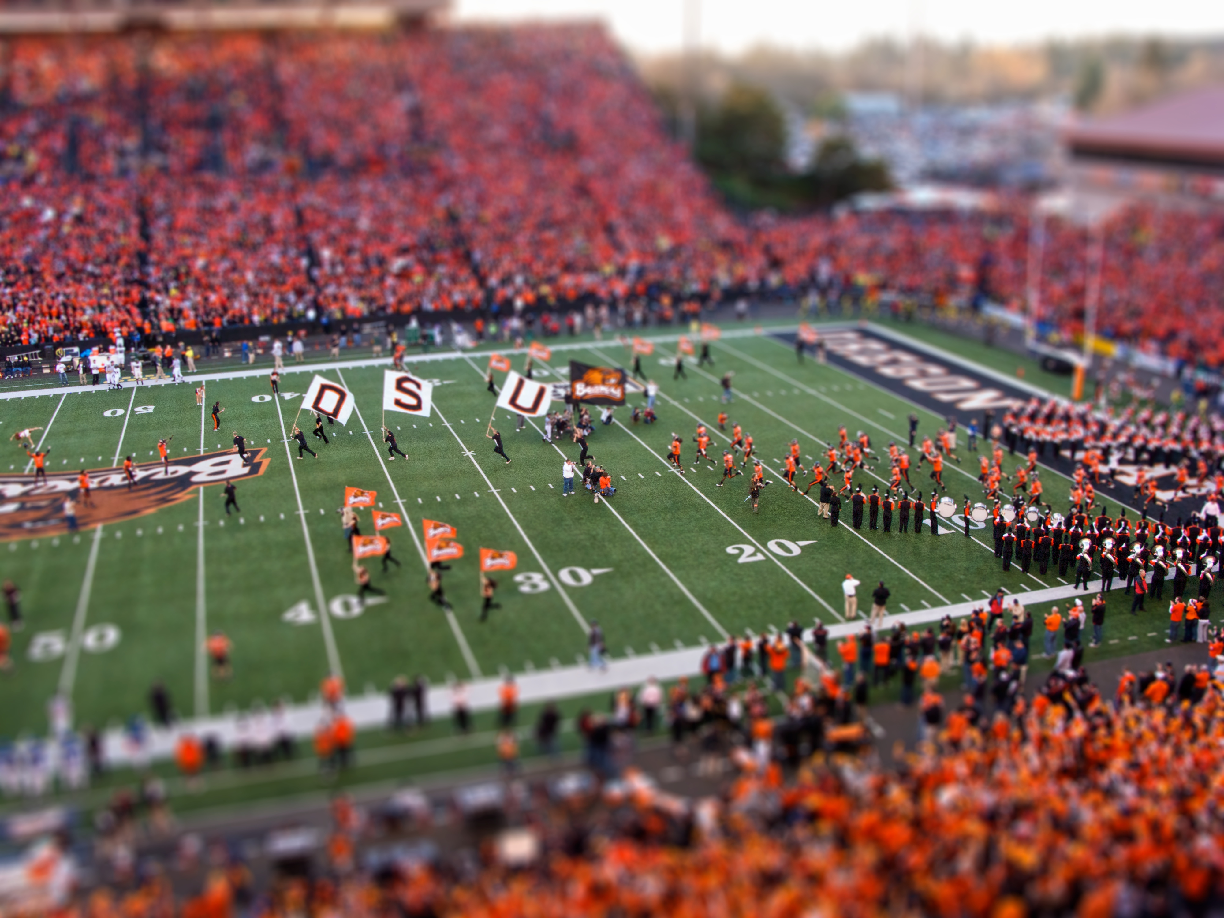 Oregon State University Football Game Tilt-Shift Miniature